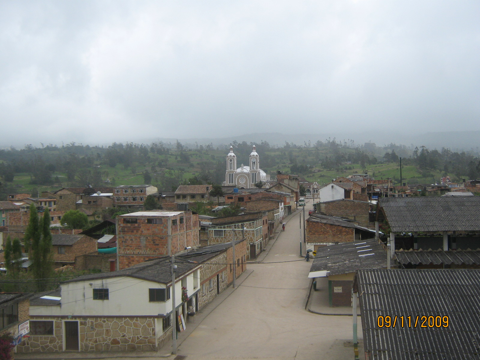 Casco Municipal de Ciénega